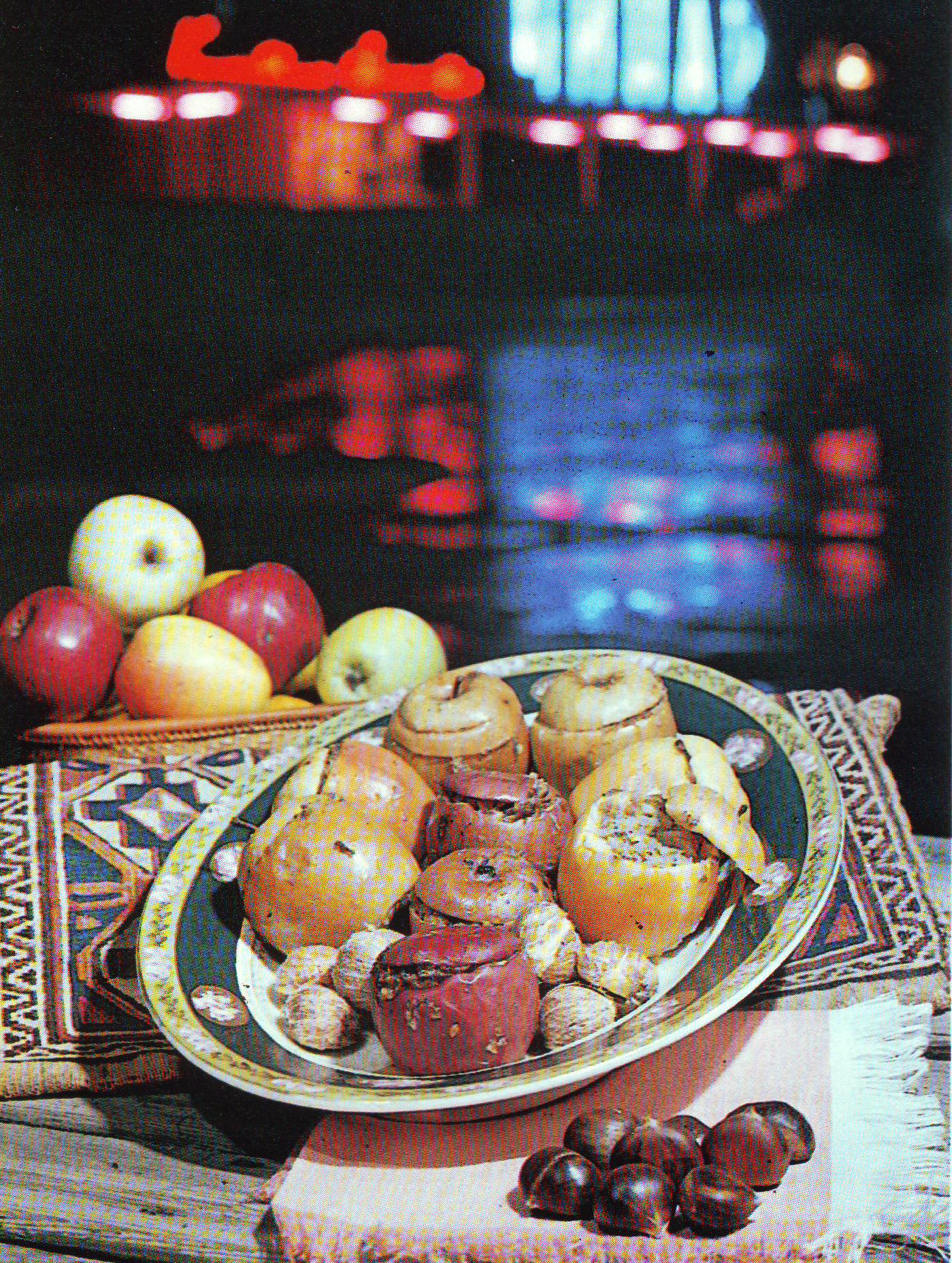 Cuisine of Azerbaijan: Alma dolmasy (stuffed apples)